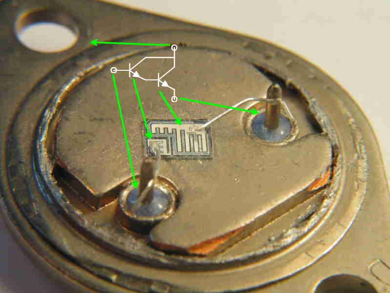 Internals of a power darlington transistor. Manufacturer unknow. Unstamped "Out-of-Spec" (cheap) version. Technology of the 1980's